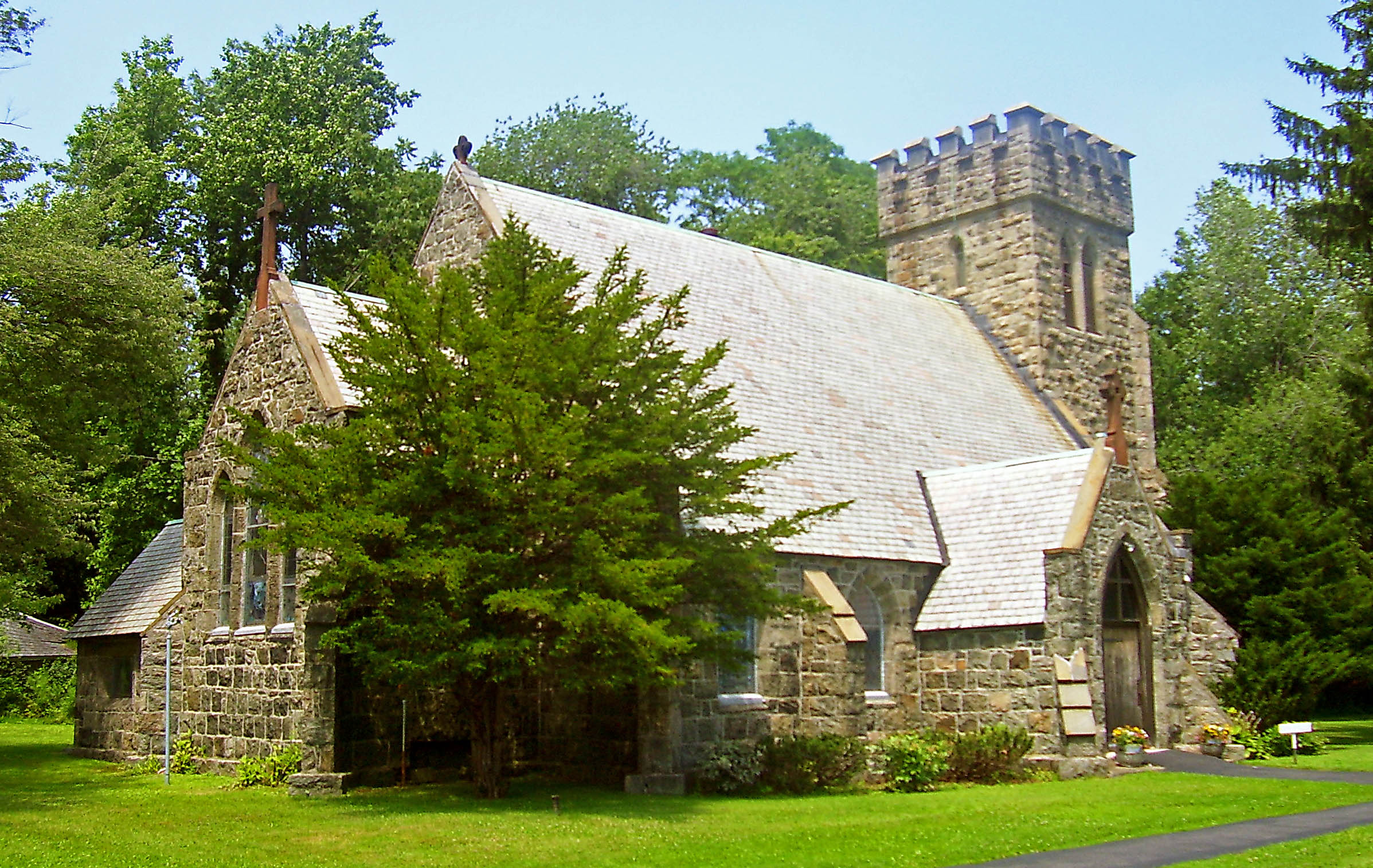 St Thomas Episcopal Church in New Windsor, NY, USA